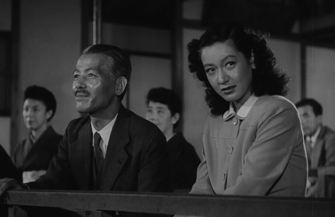 Chishu Ryu and Setsuko Hara in the 1949 public domain Japanese movie Banshun (Late Spring) by Yasujiro Ozu